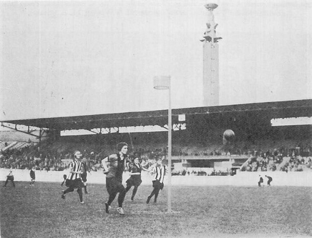 Korfball was a demonstration sport at the 1928 Summer Olympics in Amsterdam. Two teams participated. This is an action photo